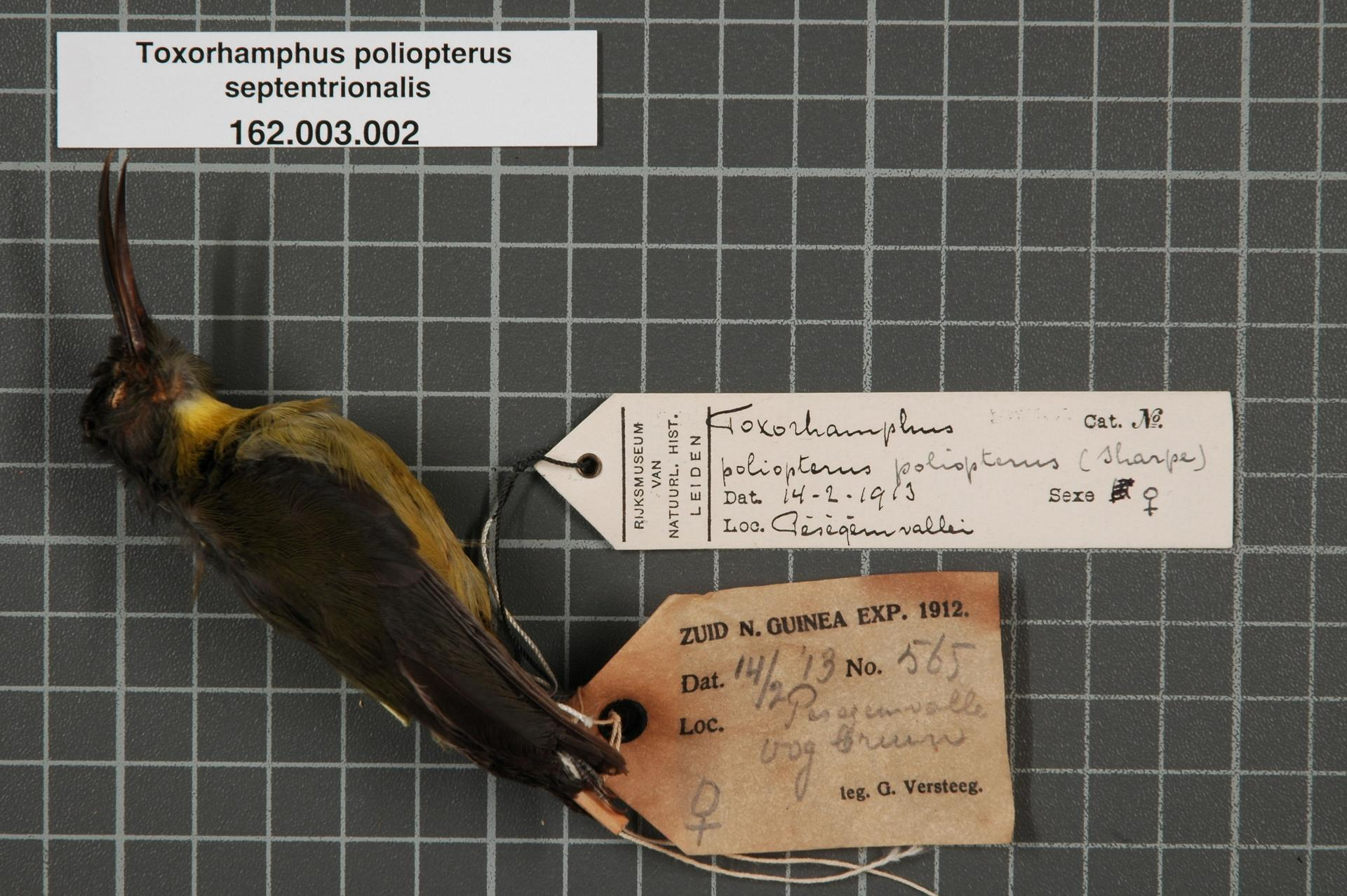 Toxorhamphus poliopterus septentrionalis Mayr & Rand, 1935